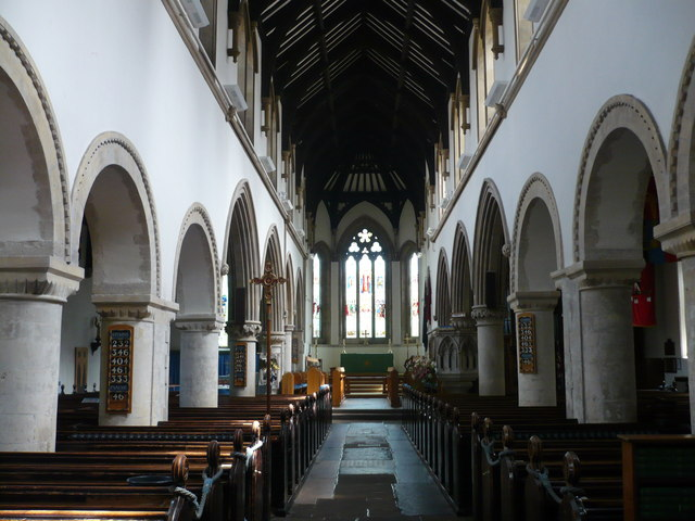 The nave of St. Mary the Virgin church, Dover